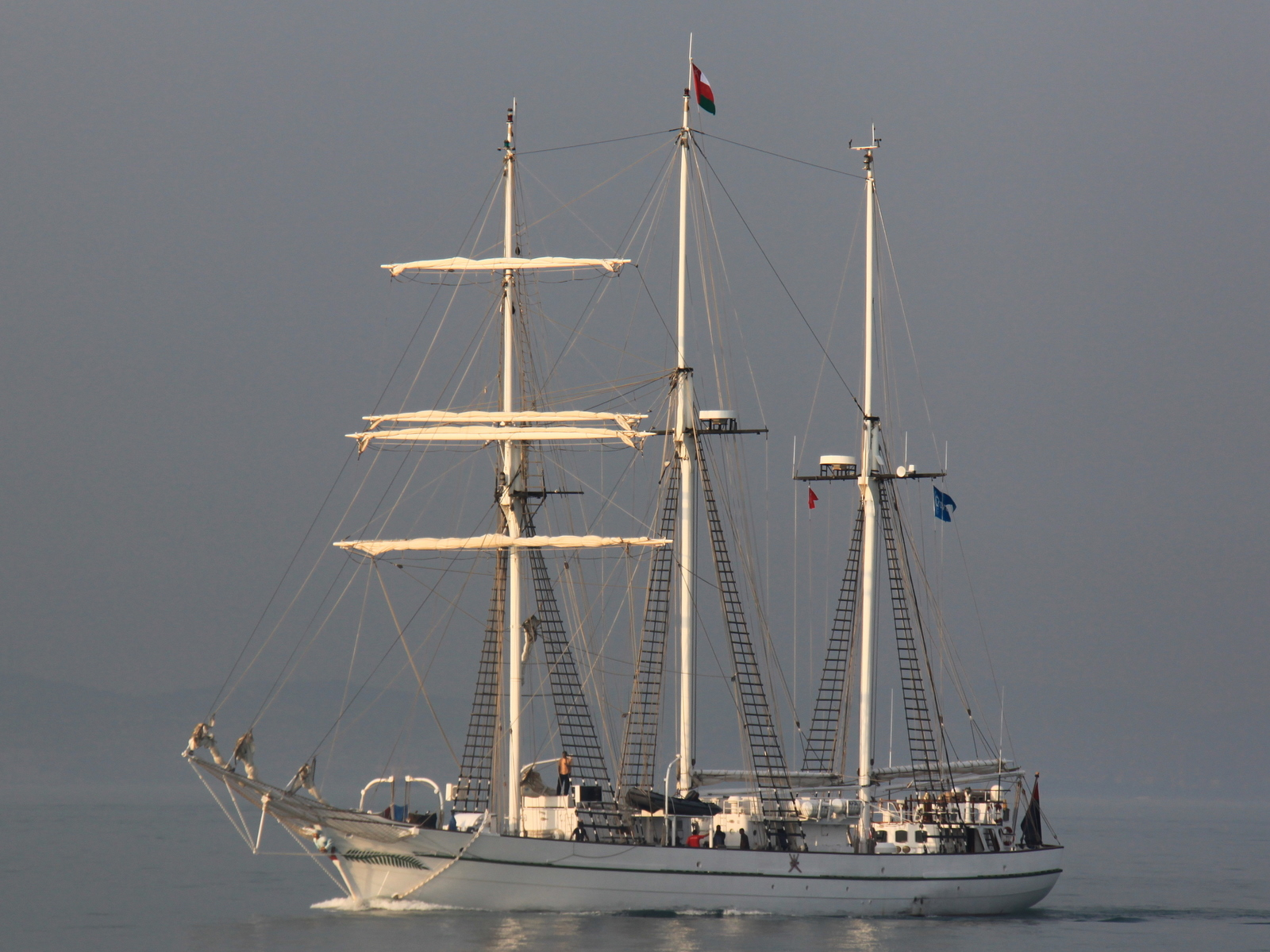 The RNOV Shabab Oman after leaving Istanbul and heading to the Sea of Marmara.